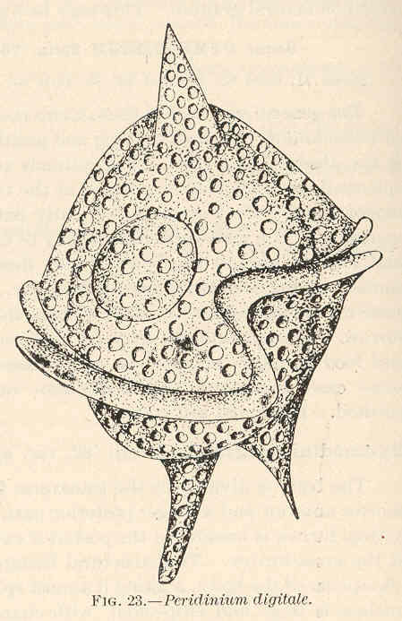 Peridinium digitale Subject: Peridinium Tag: Invertebrates